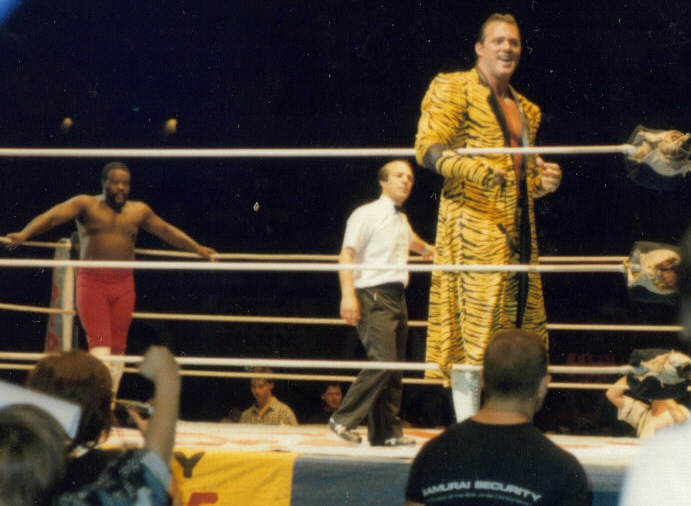 Brutus Beefcake. I took this photo myself at the Sydney Entertainment Center some time during the mid to lat 80s. This is entirely my own work